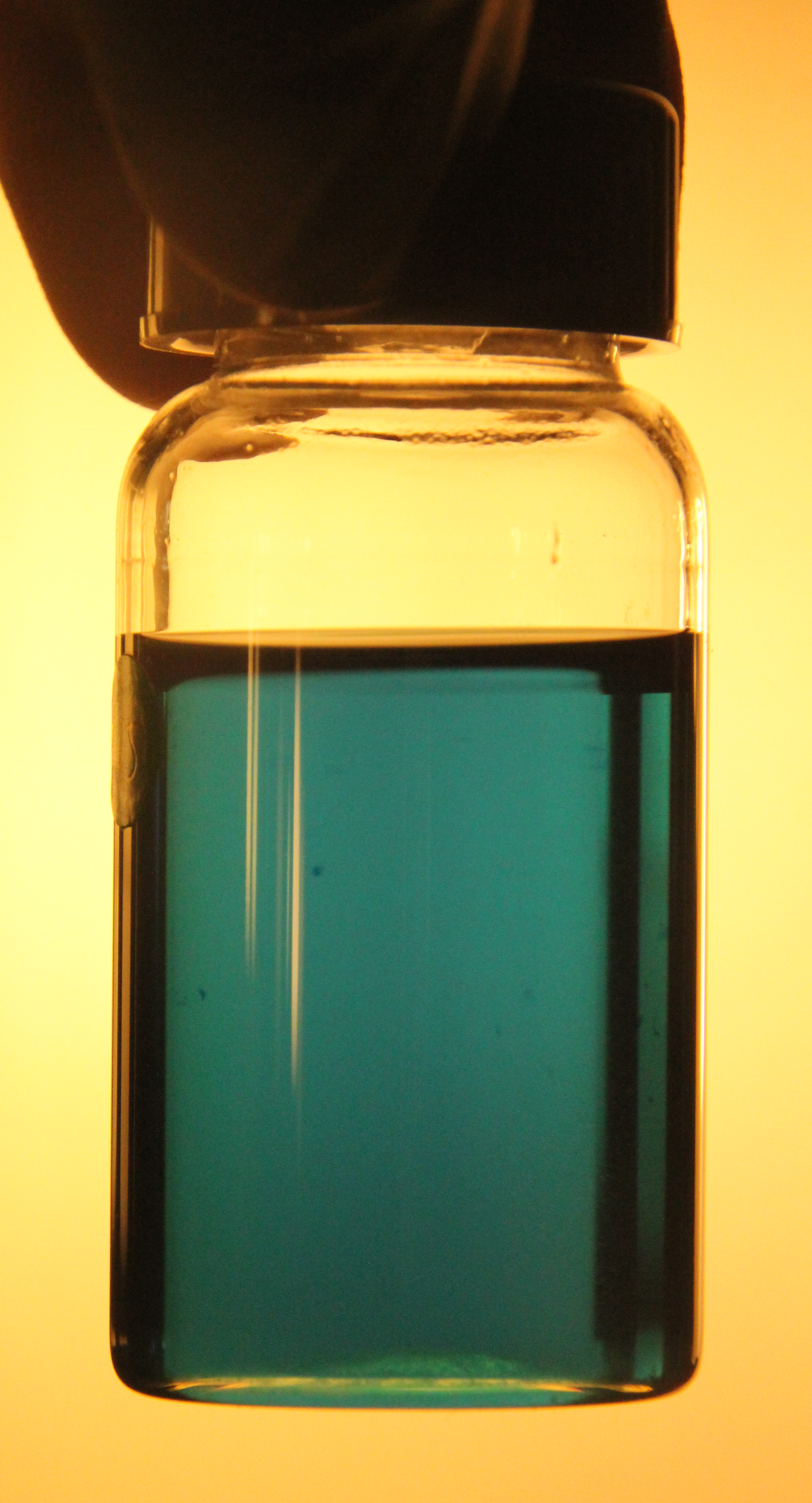 Lithium Naphthalenide in tetrahydrofuran viewed through light